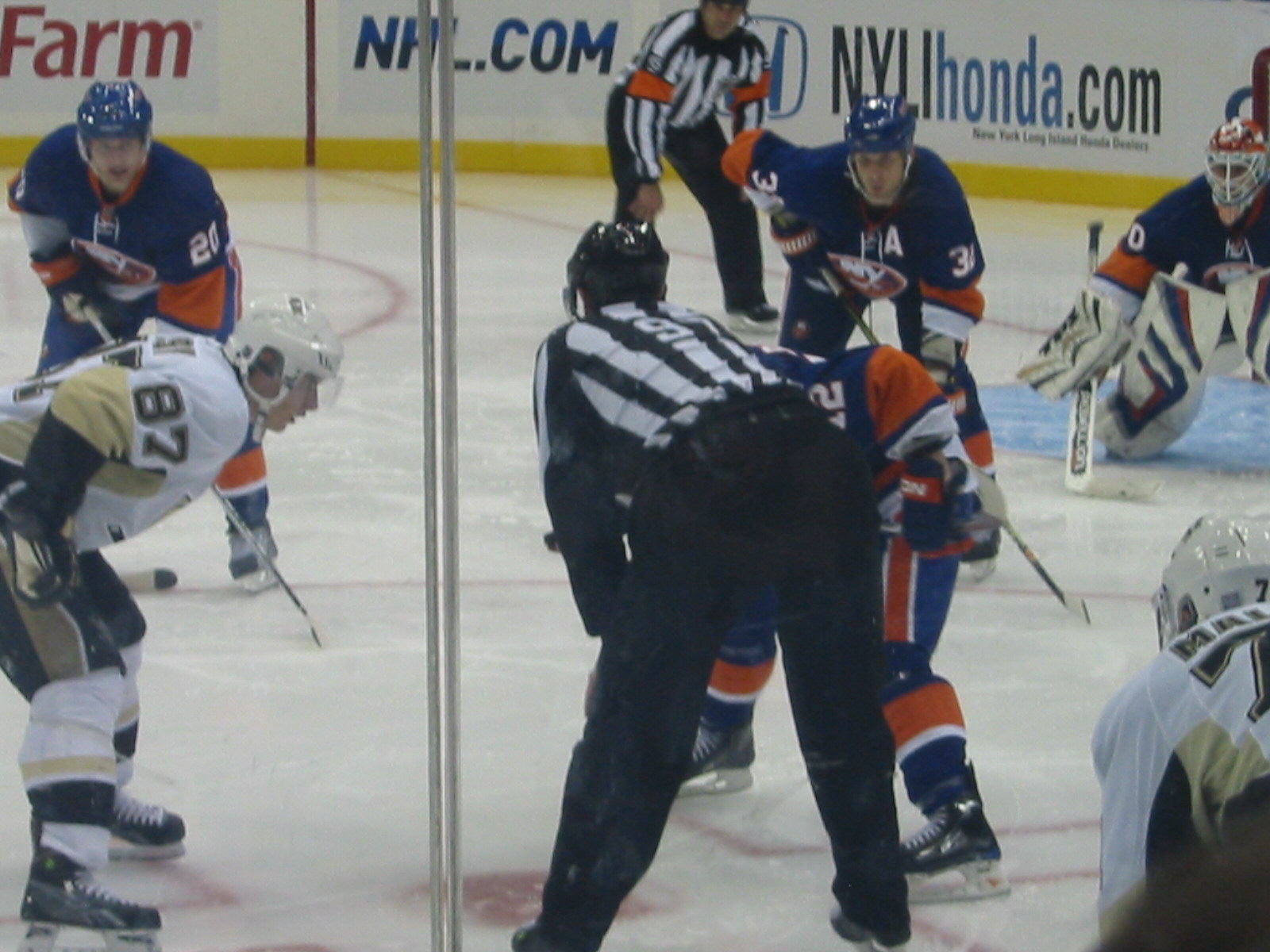 A faceoff in the New York Islanders' first game of the 2009-10 NHL season, against the Pittsburgh Penguins.